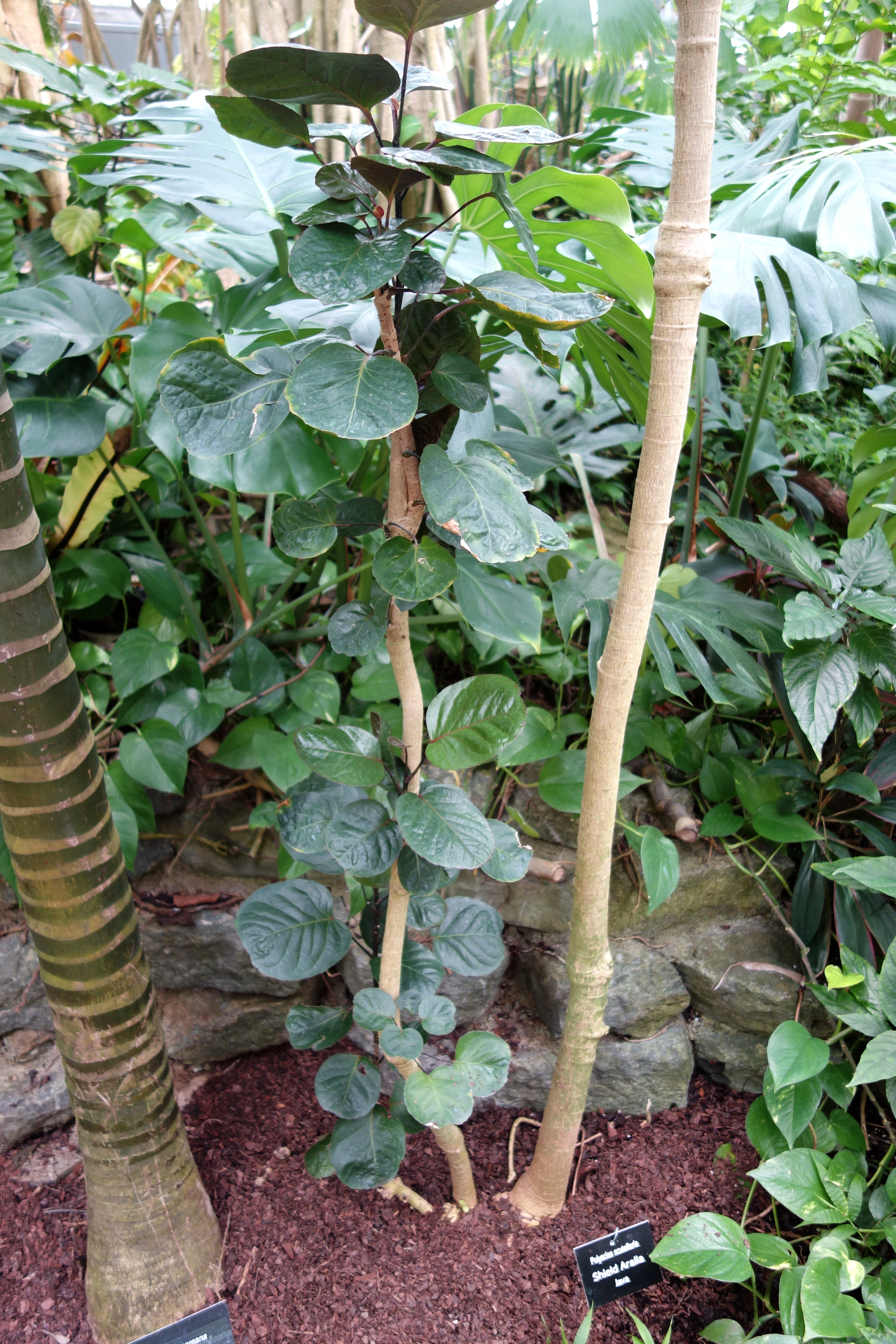 Botanical specimen in Krohn Conservatory, Eden Park, Cincinnati, Ohio, USA.